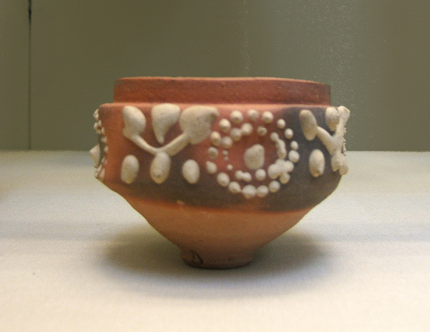 Small cup, made at Aswan, Egypt; decorated in barbotine (slip-trailing). 1st-2nd century AD. Ht.6.5 cm. British Museum, London. Greek & Roman, 1994.4-11.2